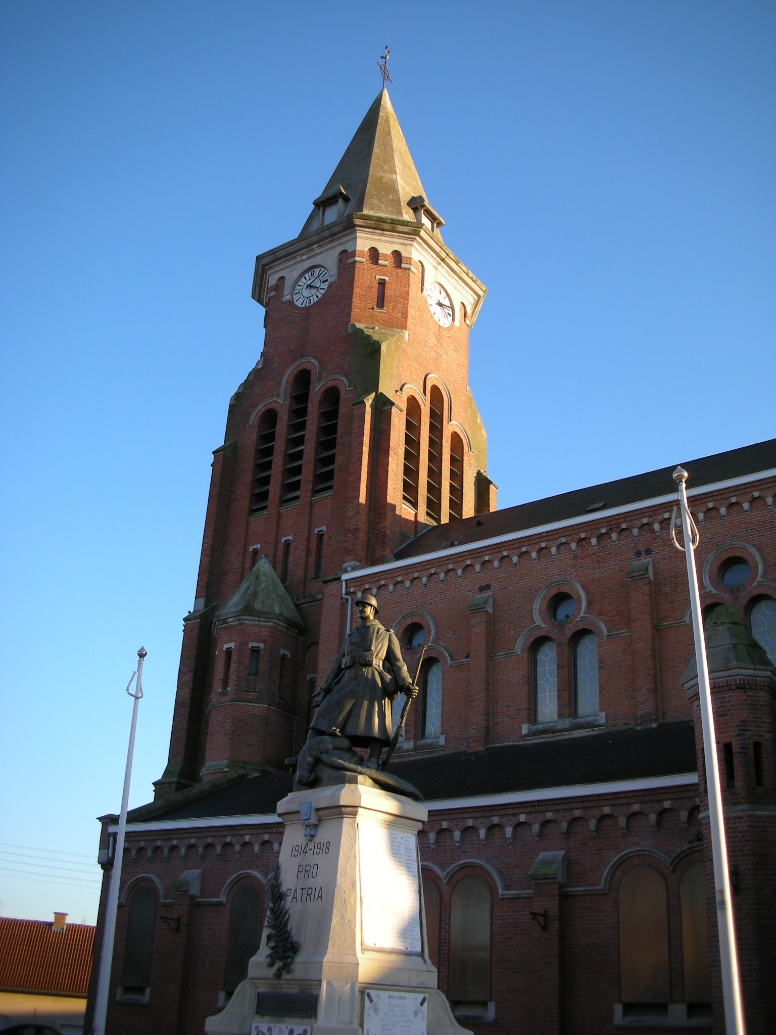 Saint-Martin Church and War Memorial